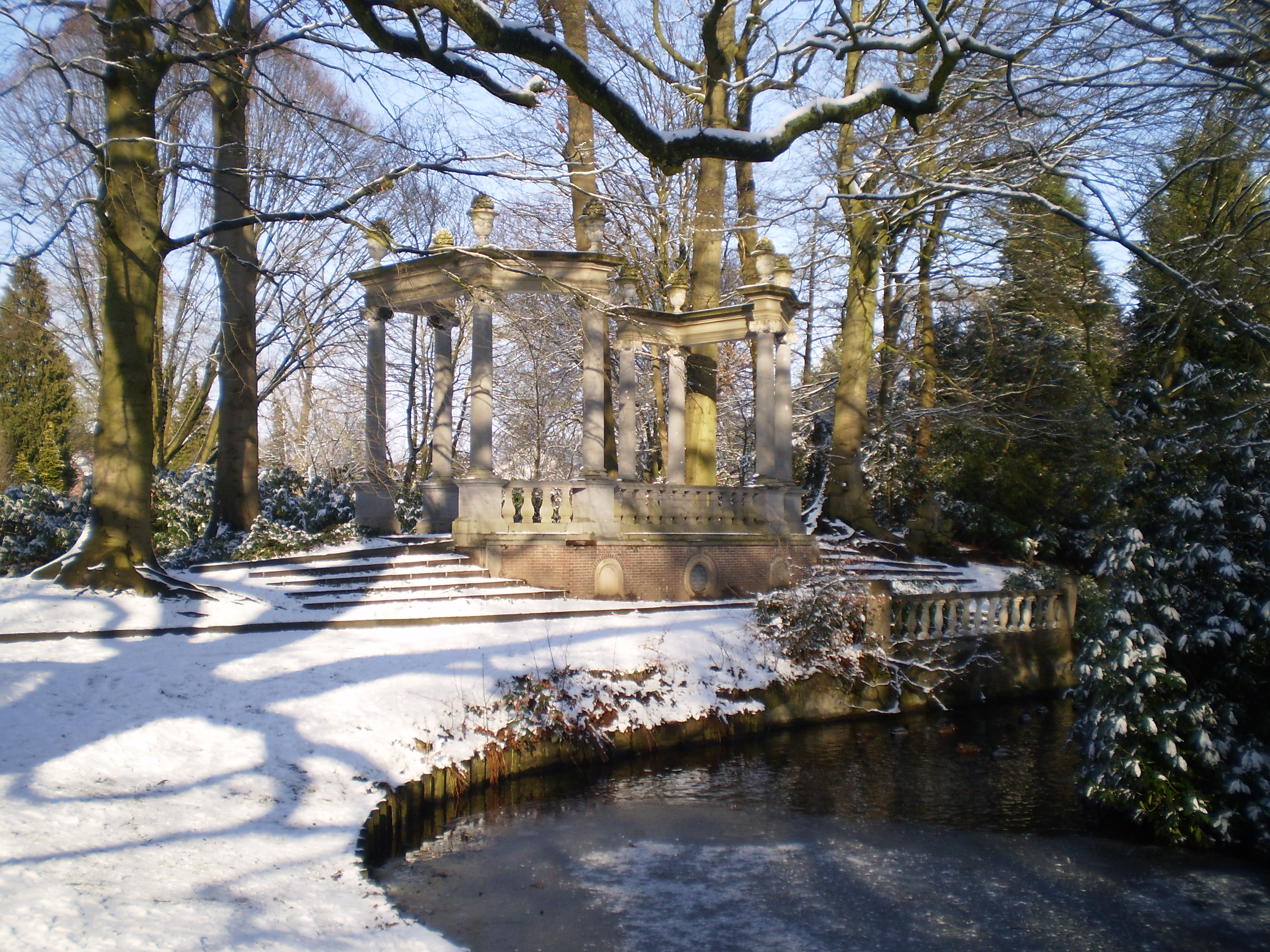 Colonnade (south side) in Cantonspark, Baarn